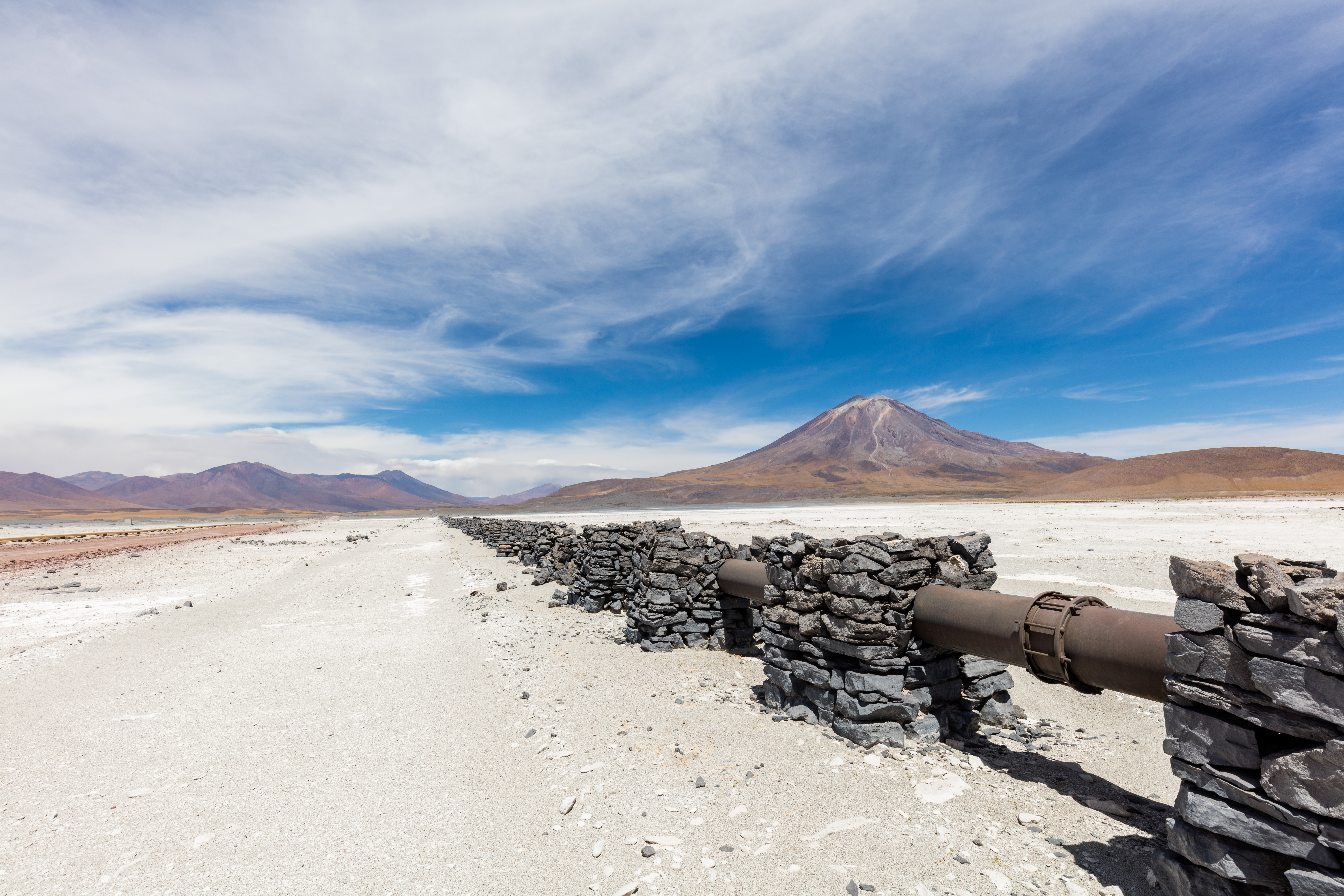 Gas pipeline next to the B-145, province of El Loa, Chile